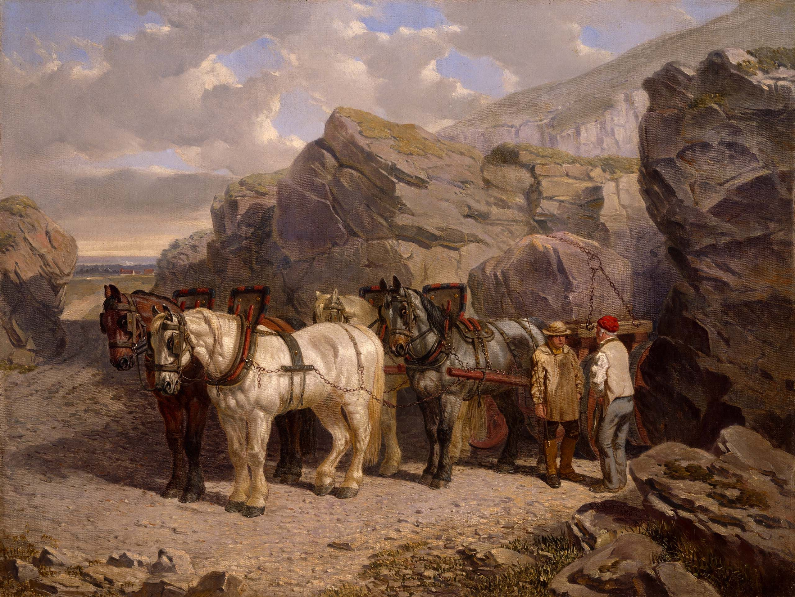 The Quarry. Oil on Canvas. Signed and dated. 18 x 24 in (45.7 x 61 cm).